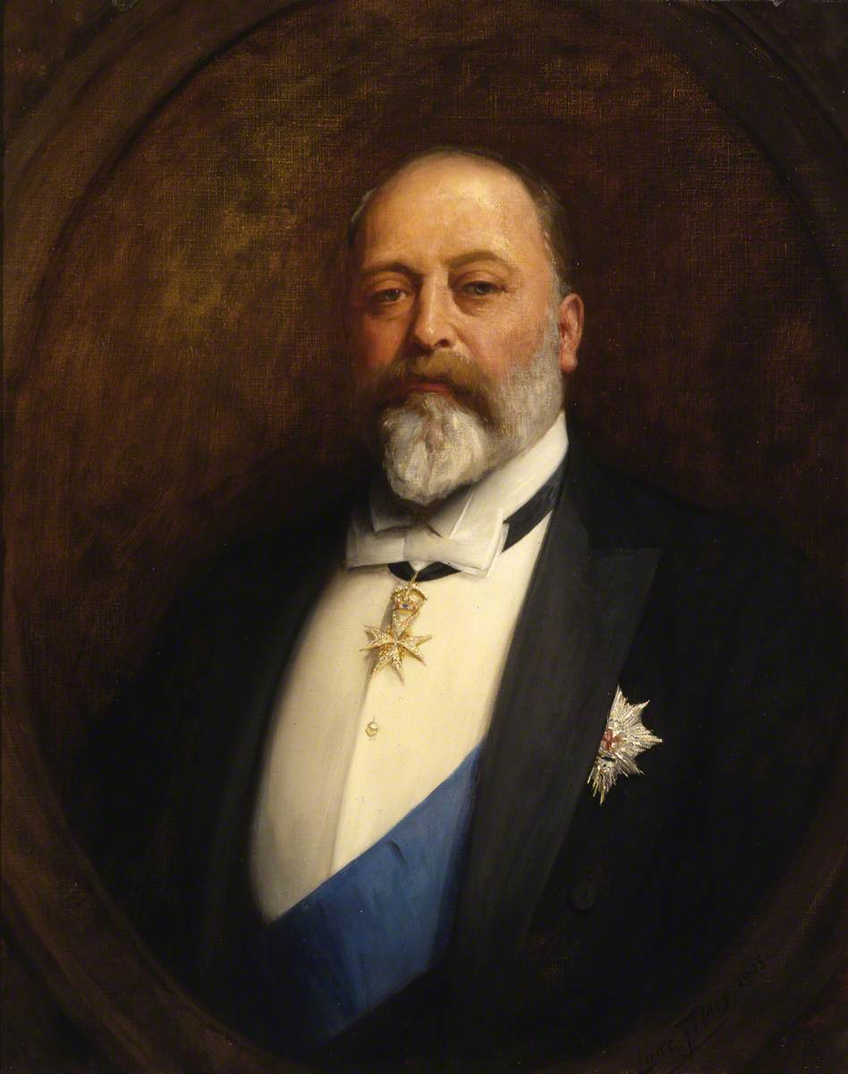 This portrait of HM King Edward VII of the United Kingdom shows him wearing the broad ribbon and star of the Order of the Garter. He is also wearing the neck badge of the Sovereign Head of the Order of St John.